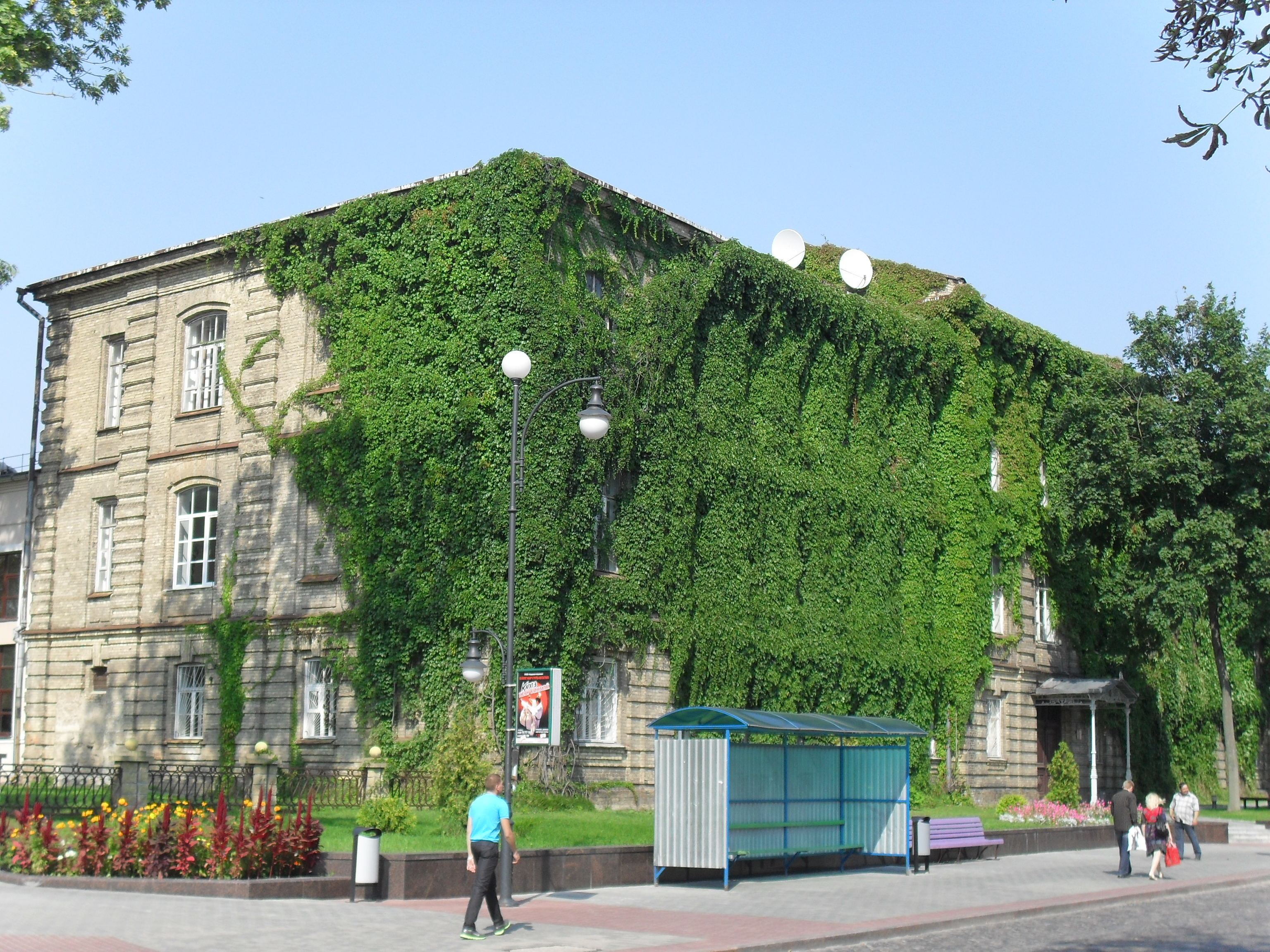 Беларуская (тарашкевіца): Забудова вул. Э. Ажэшкі This is a photo of Belarusian heritage monument. Reference number: 412Г000005 ( WLM)